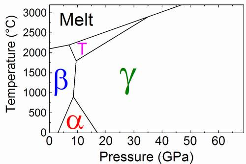 Phase diagram of elemental boron